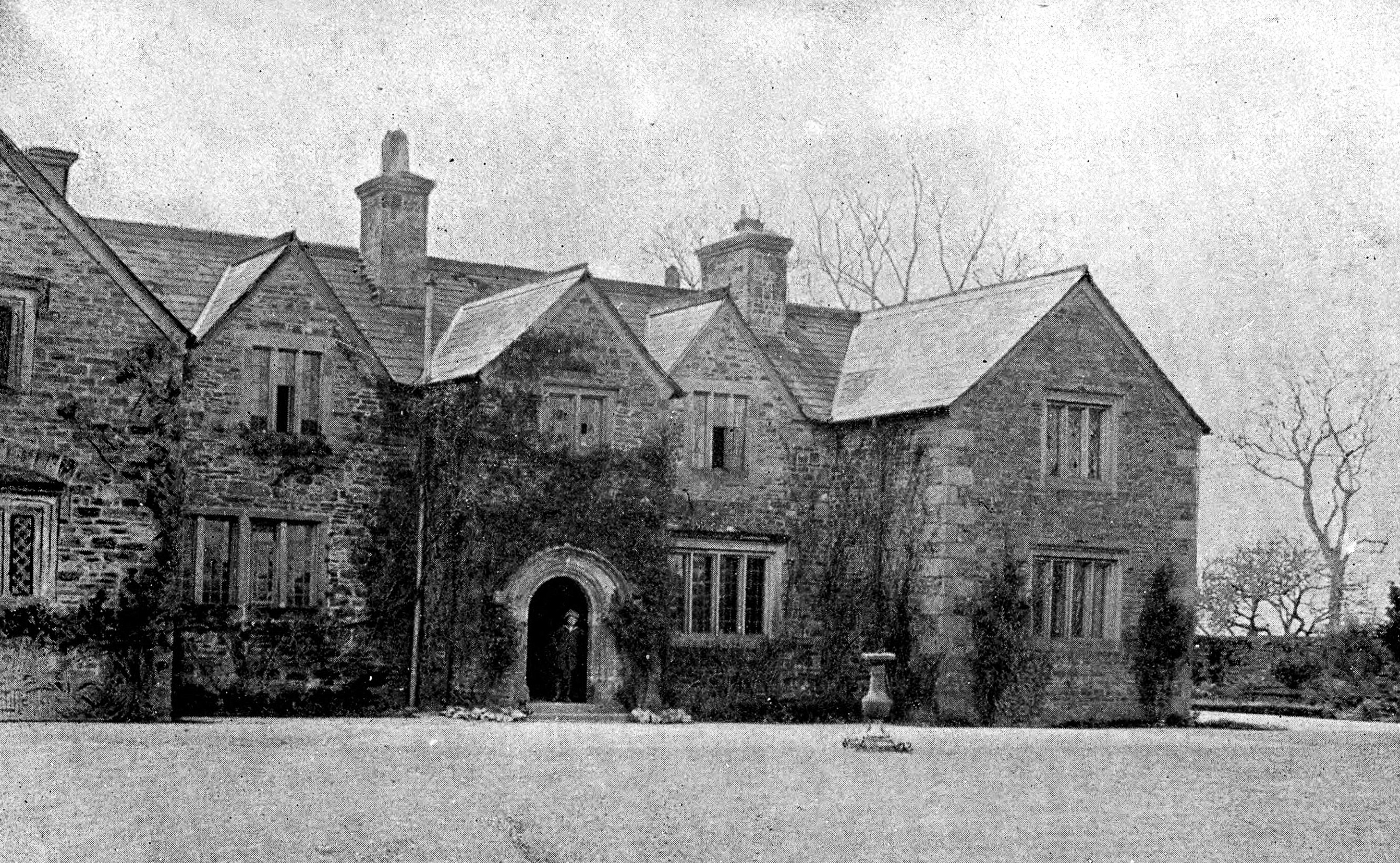 From a scanned version of Devonshire characters and strange events by Sabine Baring-Gould, published in 1908